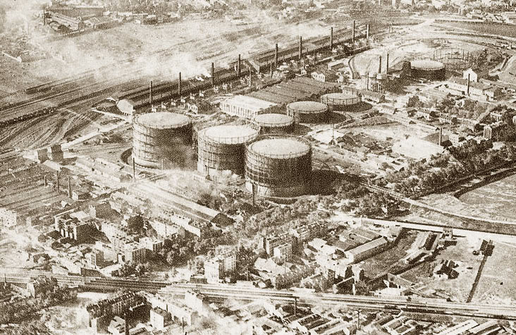 Manufactured gas factory in Saint Denis in 1920.